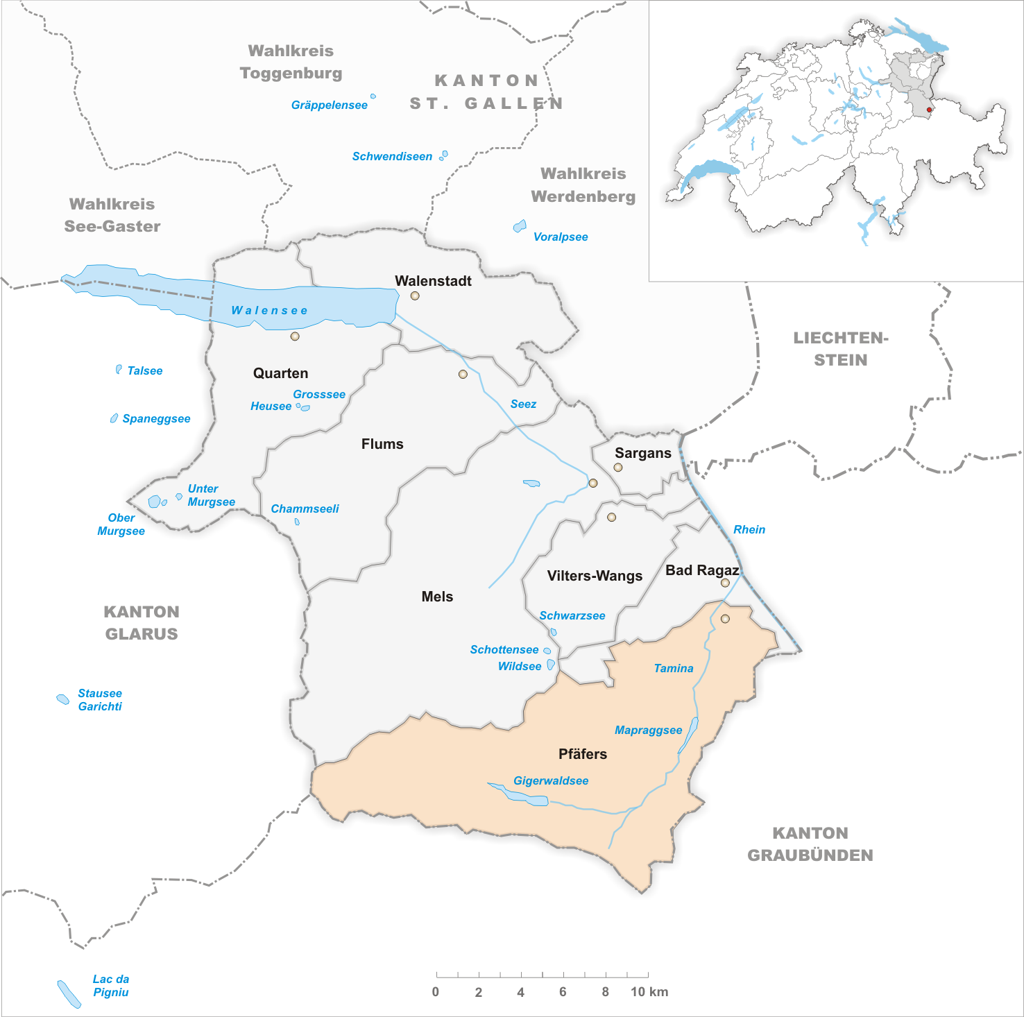 Municipality Pfäfers